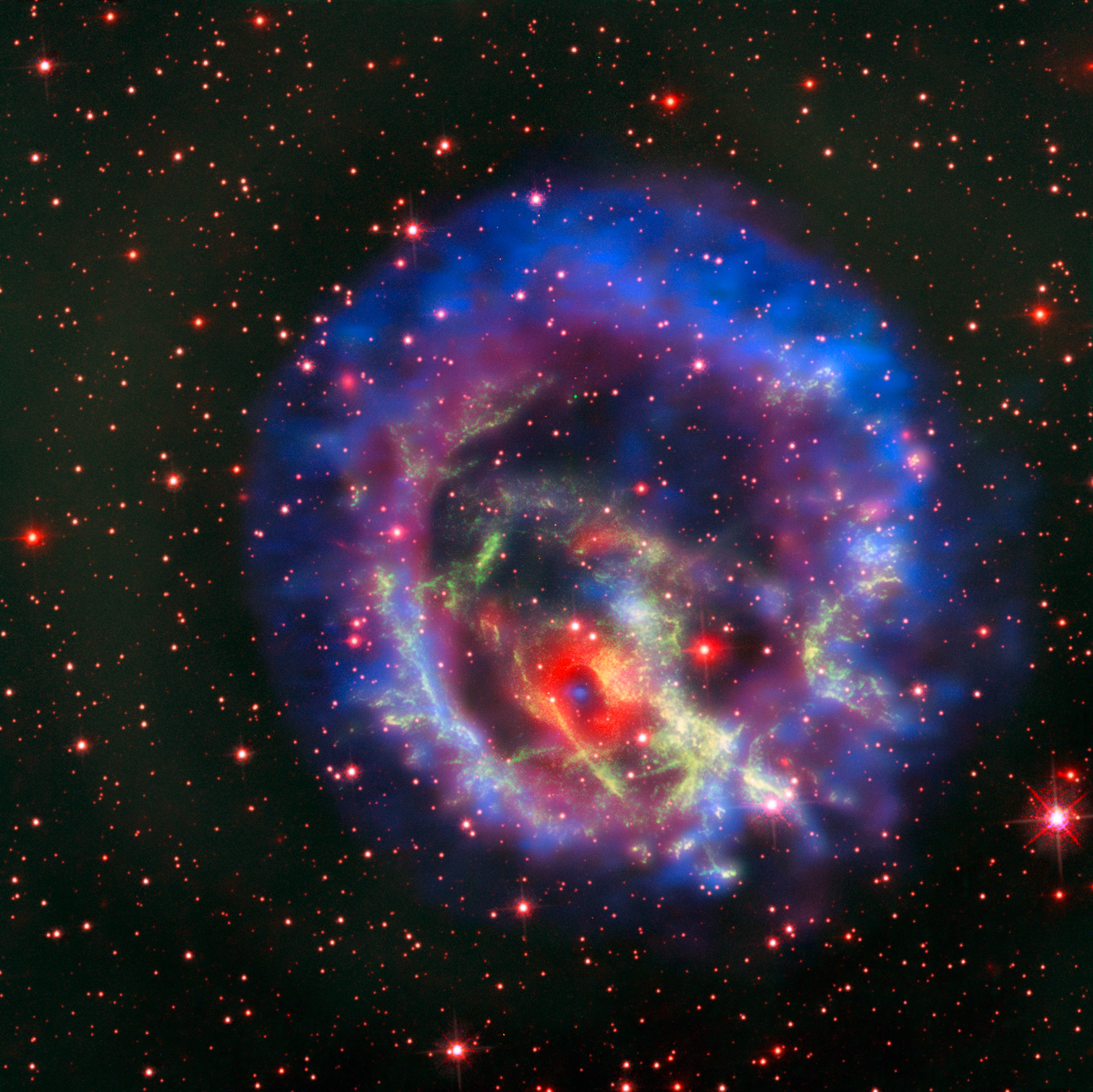 This new picture created from images from telescopes on the ground and in space tells the story of the hunt for an elusive missing object hidden amid a complex tangle of gaseous filaments in one of our nearest neighbouring galaxies, the Small Magellanic Cloud. The reddish background image comes from the NASA/ESA Hubble Space Telescope and reveals the wisps of gas forming the supernova remnant 1E 0102.2-7219 in green. The red ring with a dark centre is from the MUSE instrument on ESO’s Very Large Telescope and the blue and purple images are from the NASA Chandra X-Ray Observatory. The blue spot at the centre of the red ring is an isolated neutron star with a weak magnetic field, the first identified outside the Milky Way.